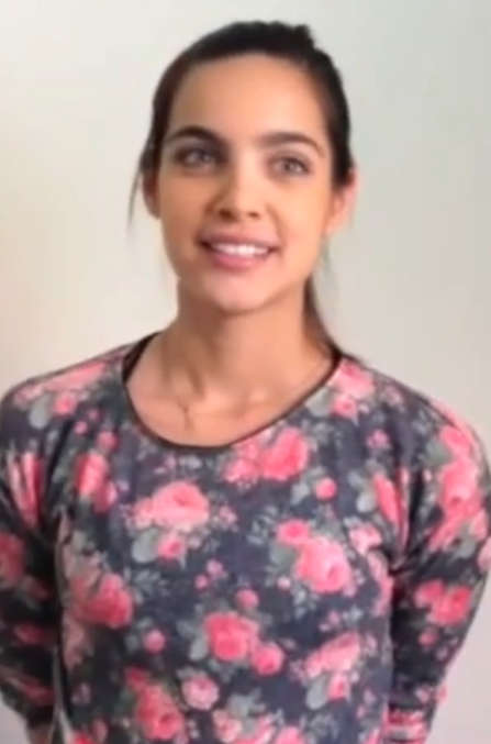 María Gabriela de Faría is an absolute star from her time of ISA TKM I knew I had to have her audition for my short film.